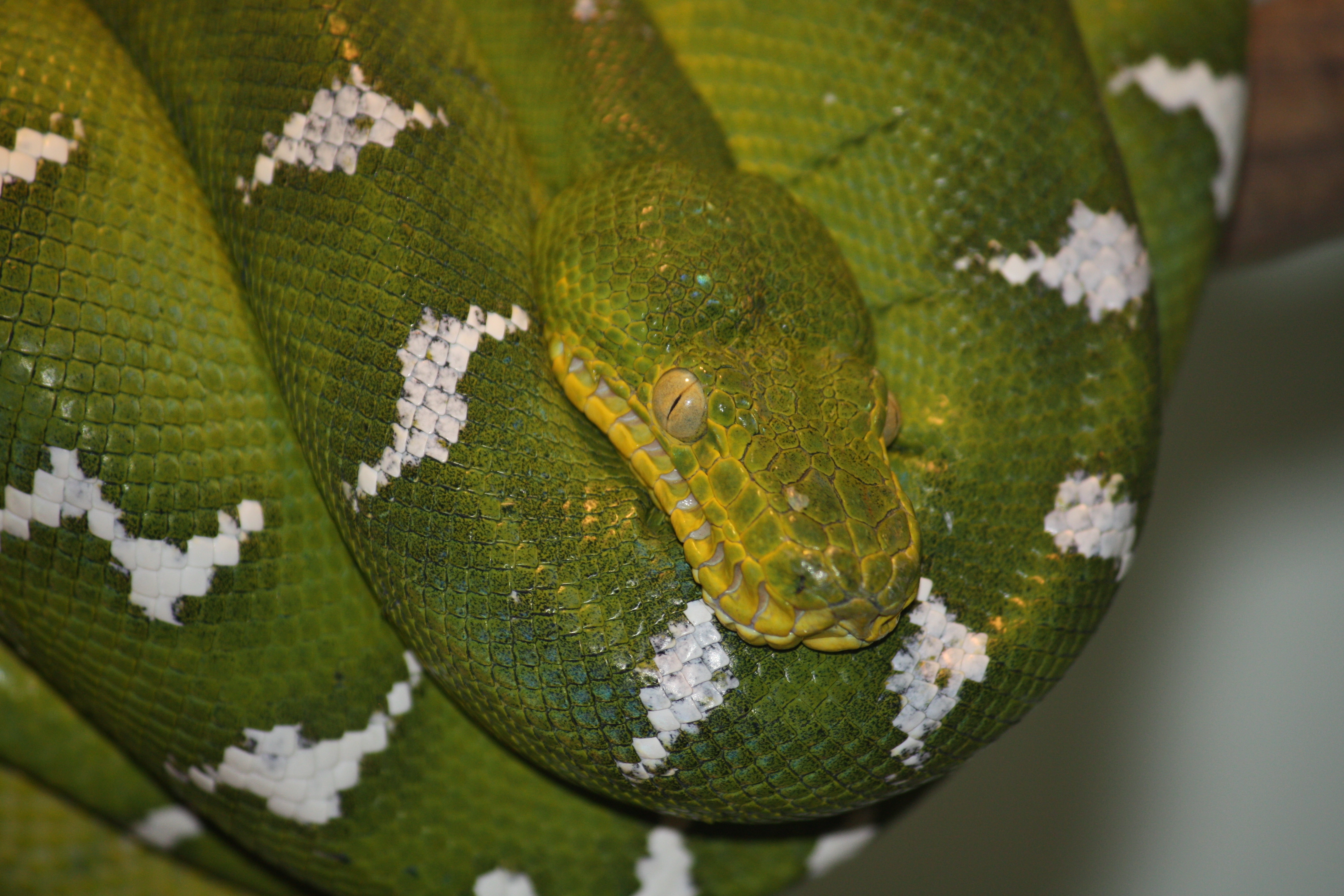 Emerald Tree Boa Corallus caninus at the Louisville Zoo